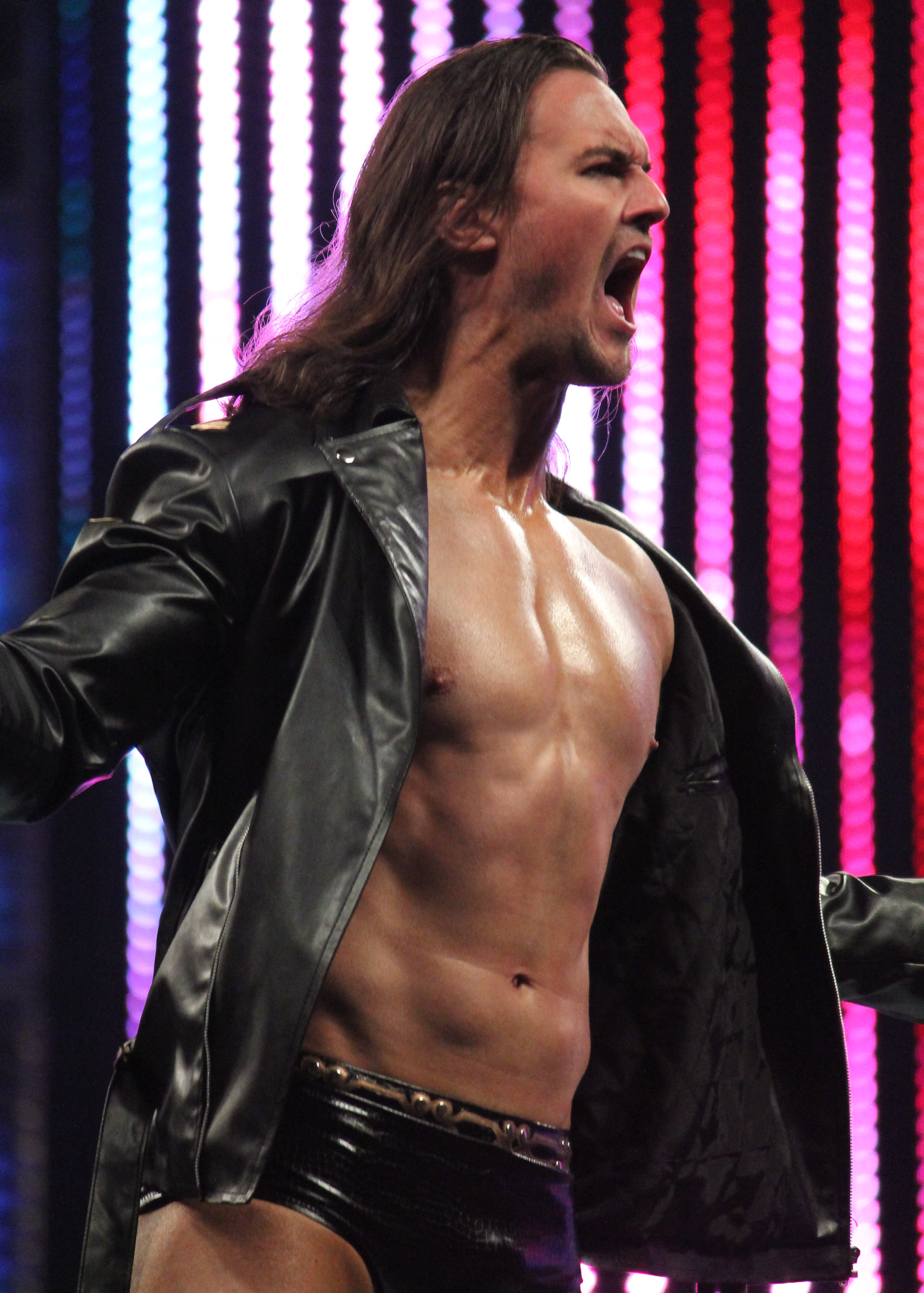 Drew McIntyre at the post-WrestleMania SmackDown tapings on 8 April 2014 in Lafayette.